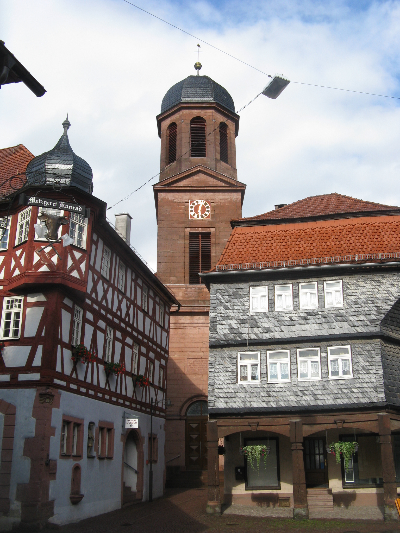 Rieneck (Bavarian Spessart/Germany): village centre